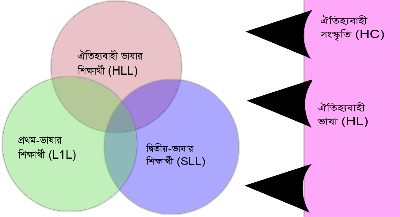 linguistics : heritage learner - categories